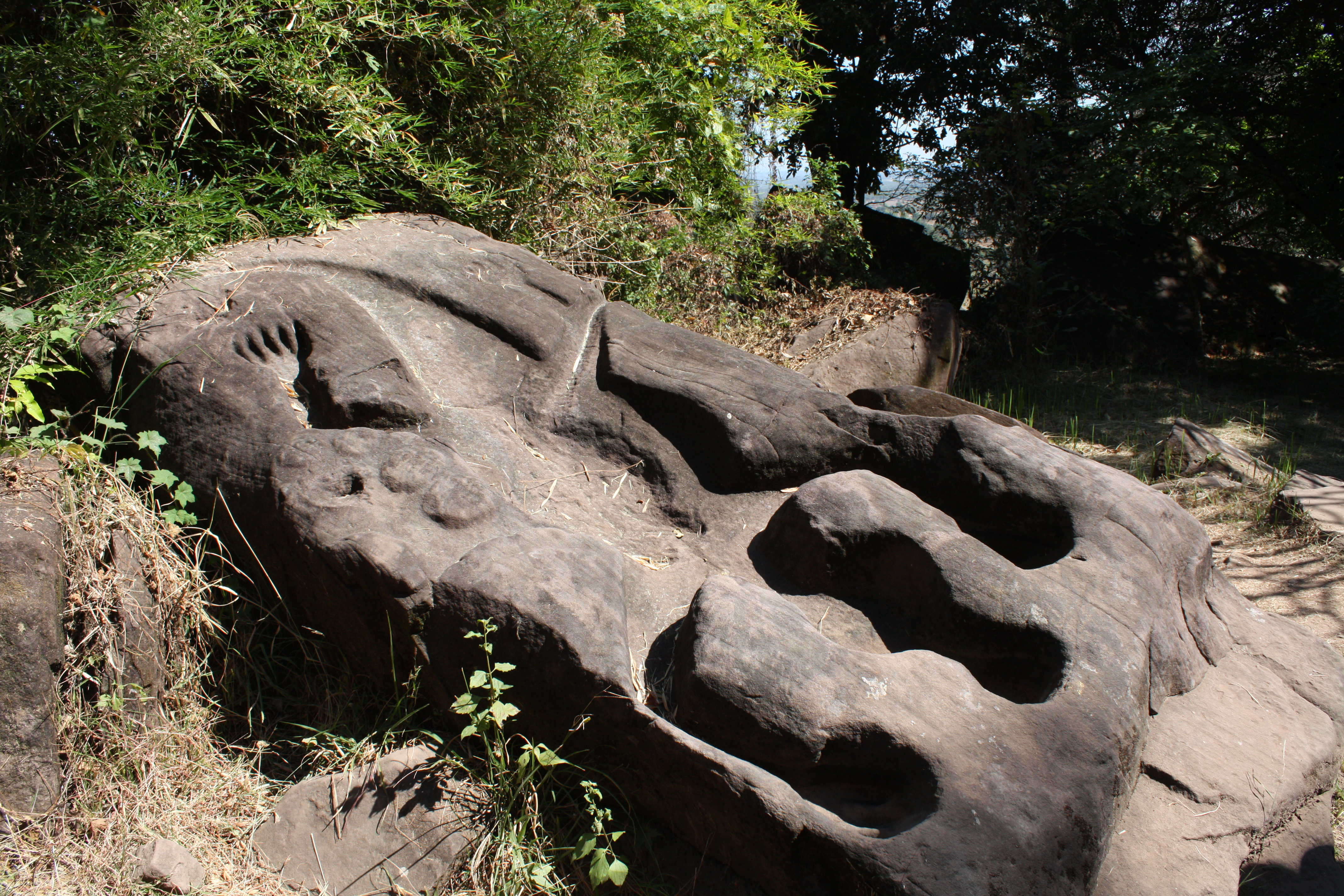 Carving of Crocodile at Wat Phu.